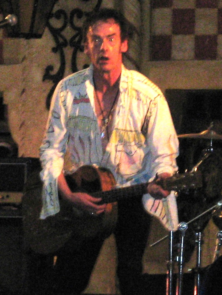 Ed Tudorpole at the Rebellion punk festival, Blackpool 10 August 2008. This is a cropped, re-balanced version of the original at Commons.